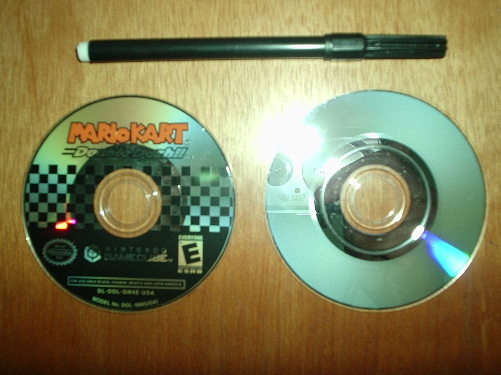 Mario Kart: Double Dash!! two Mini-DVDs. Pen used as reference.